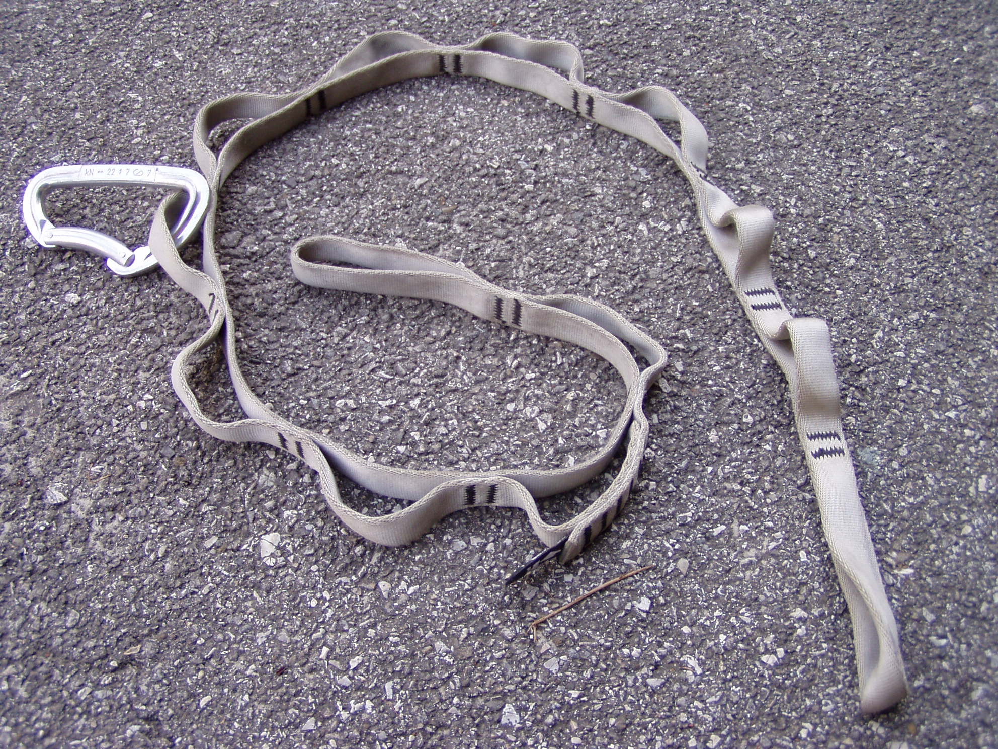 daisy chain